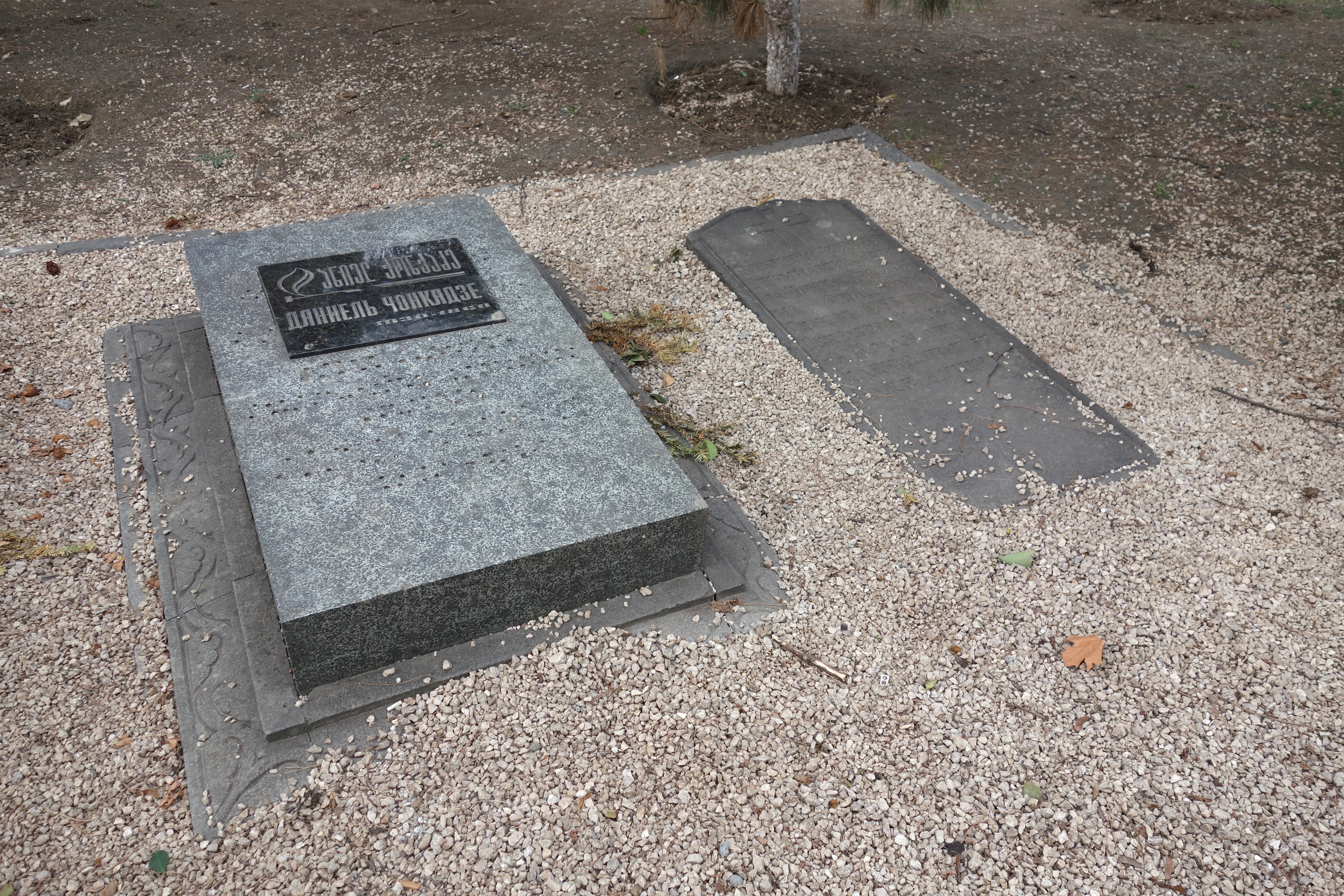 Graves of Daniel Chonkadze and his wife in Vera Park, Tbilisi, Georgia